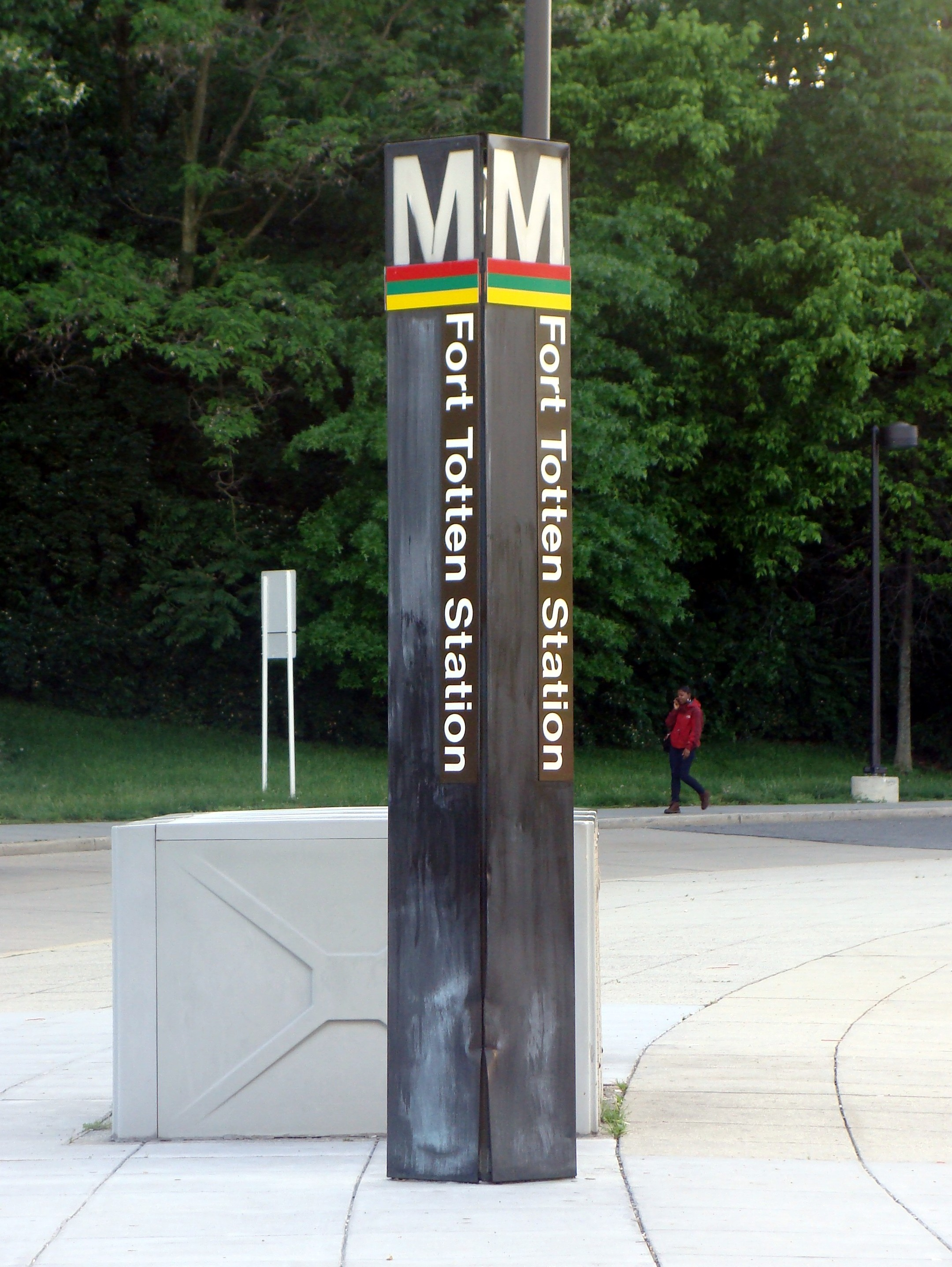 The station entrance pylon for the Washington Metro station Fort Totten.